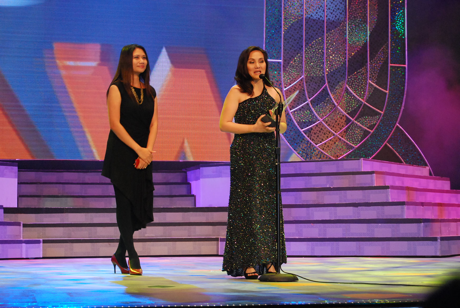 Anita Ramos Camba at the Star Awards as MOMents receive the Best Celebrity Talk Show (25th PMPC Star Awards for TV) (2011)